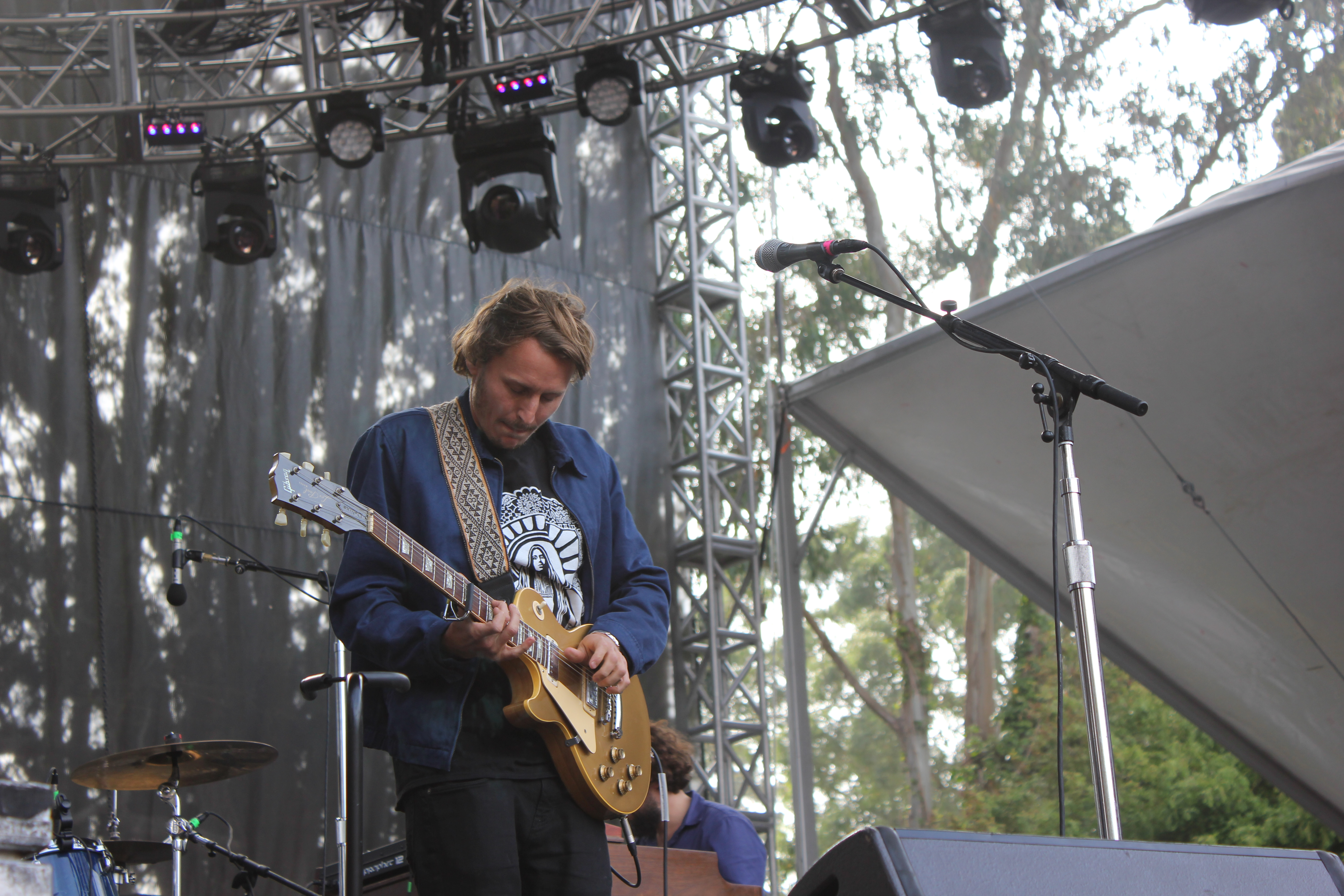 English singer-songwriter Ben Howard.